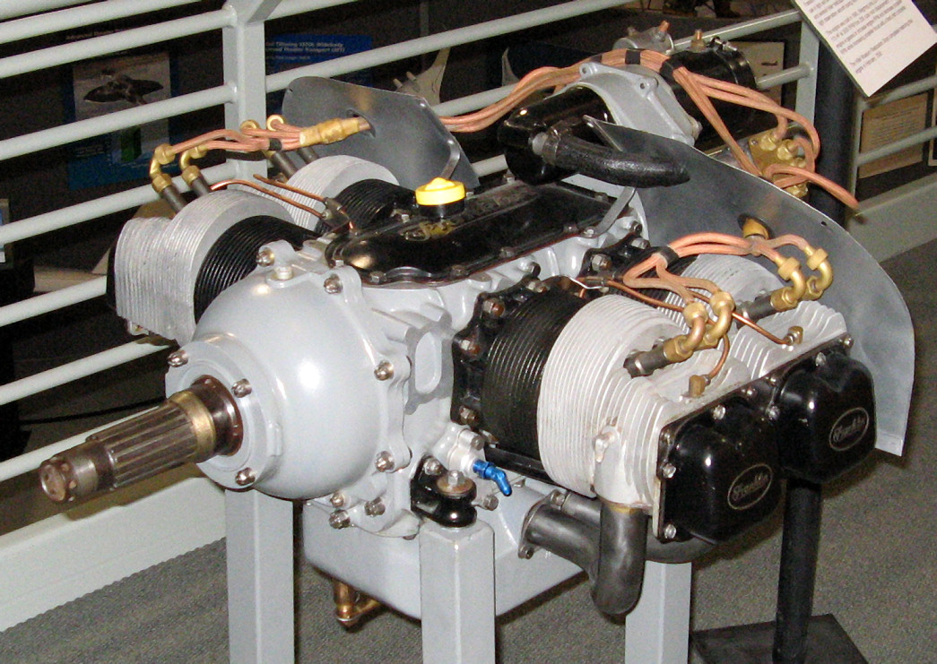 Franklin O-200 flat-four, Hiller Aviation Museum, Santa Clara, California